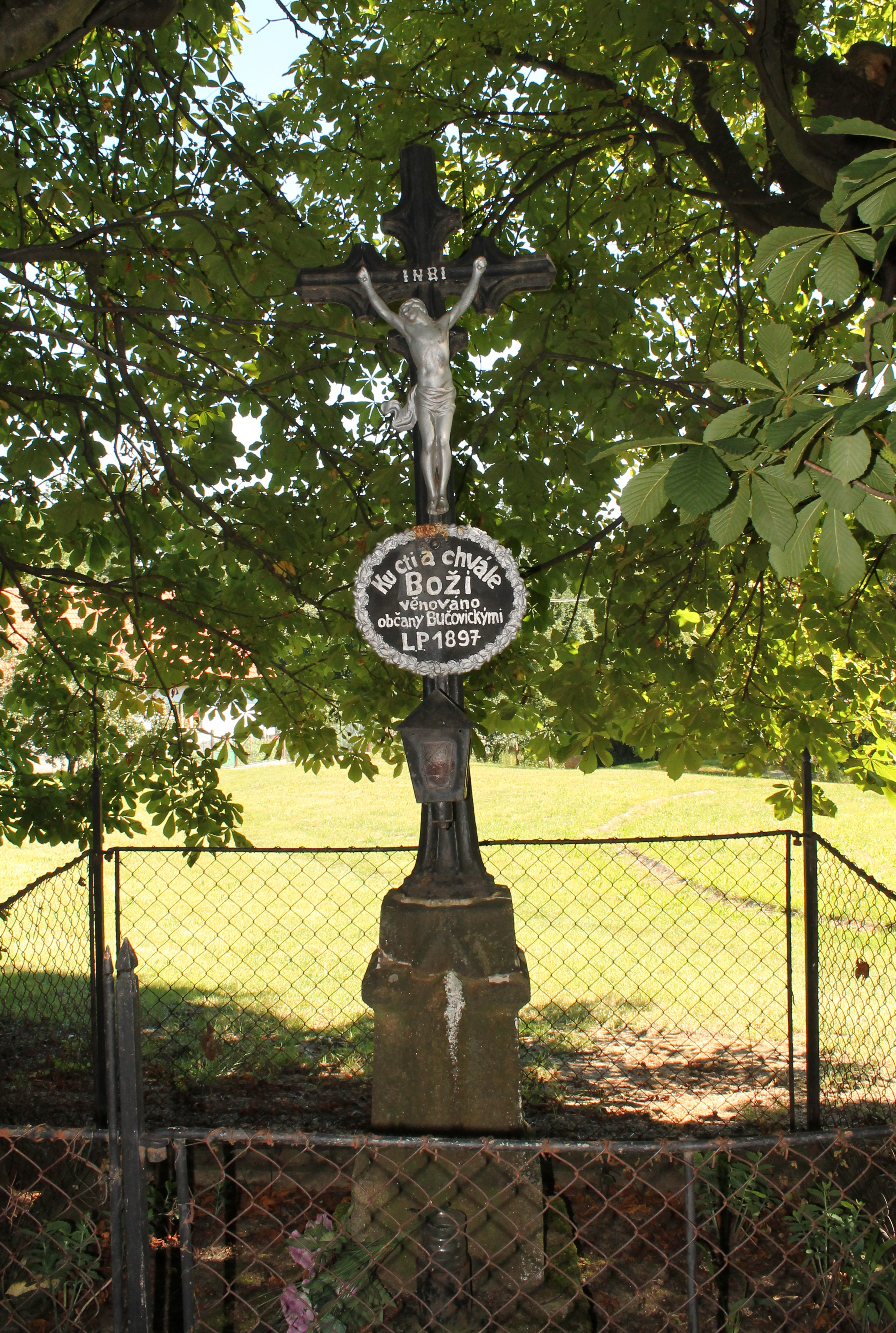 Wayside cross, Bučovice, Heřmanice, Havlíčkův Brod District, Czech Republic